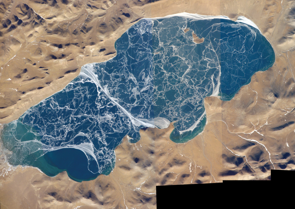 Mosaic of four astronaut photos of Lake Pumco Yuma, Tibet, China. Taken from the International Space Station.